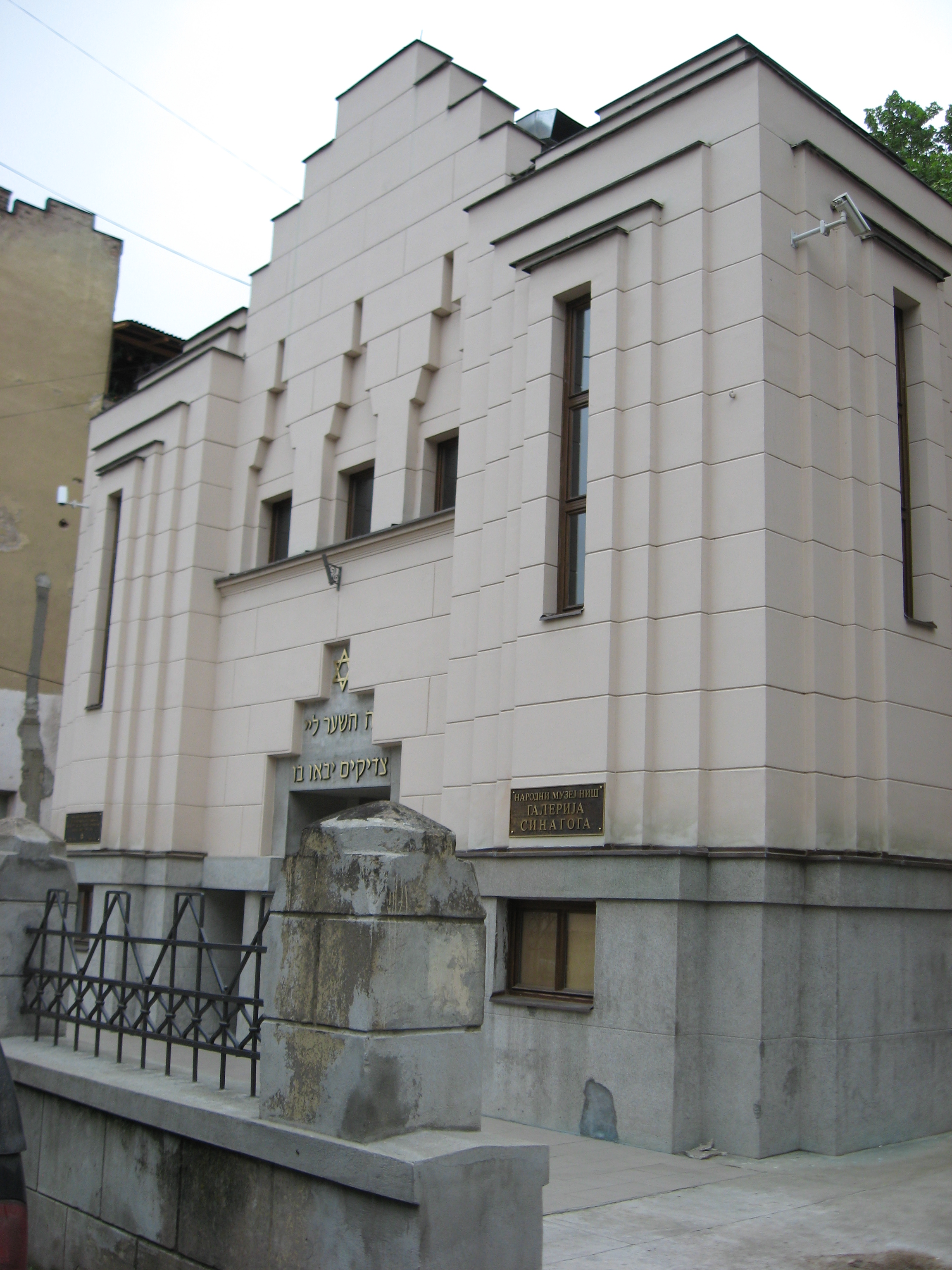 Synagogues in Nis (1925)